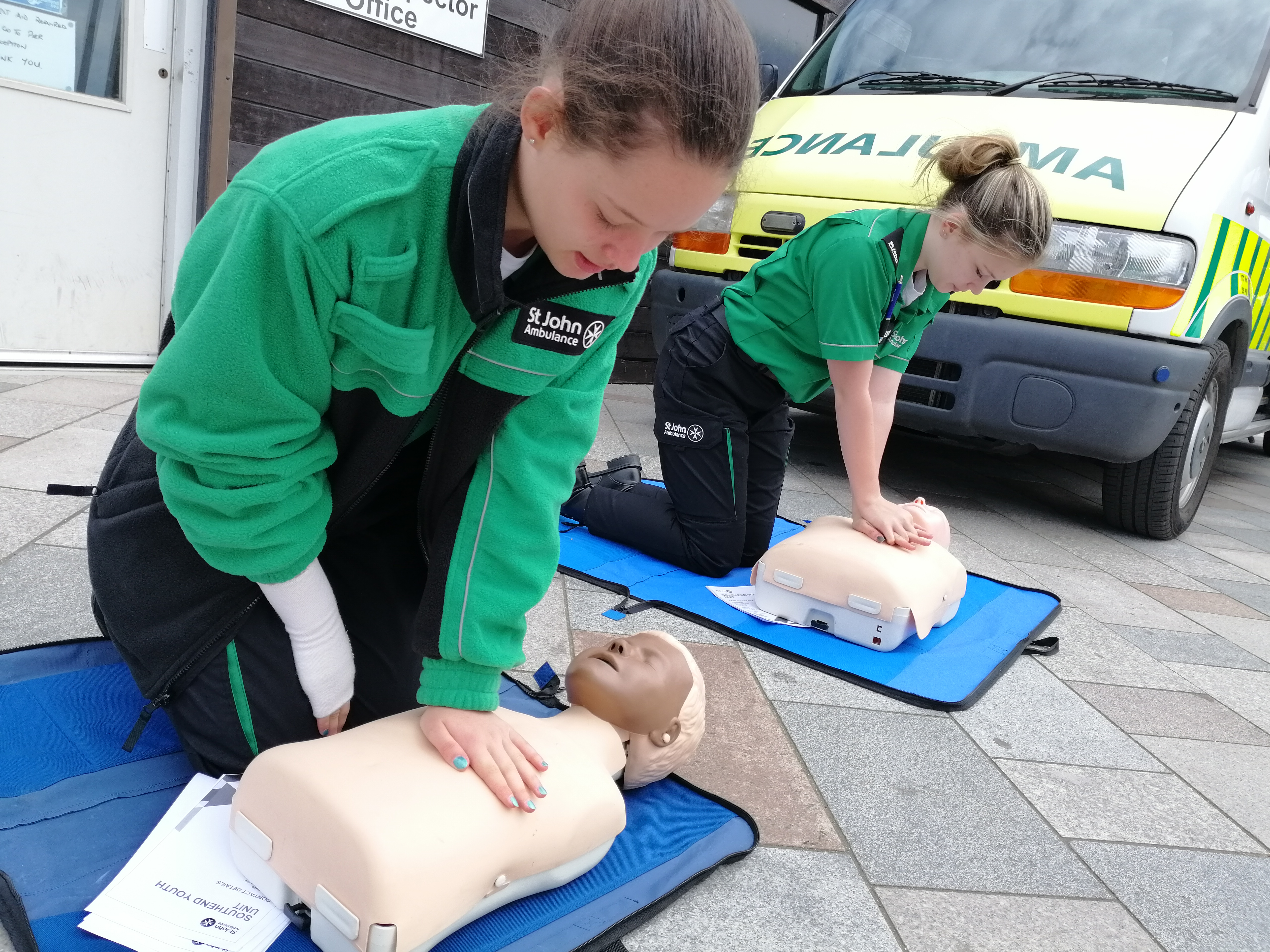 Emily Mundy, 15 and Victoria Clark, 14, St John's Ambulance cadets demonstrate their chest compression skills. Photo is rotated and cropped